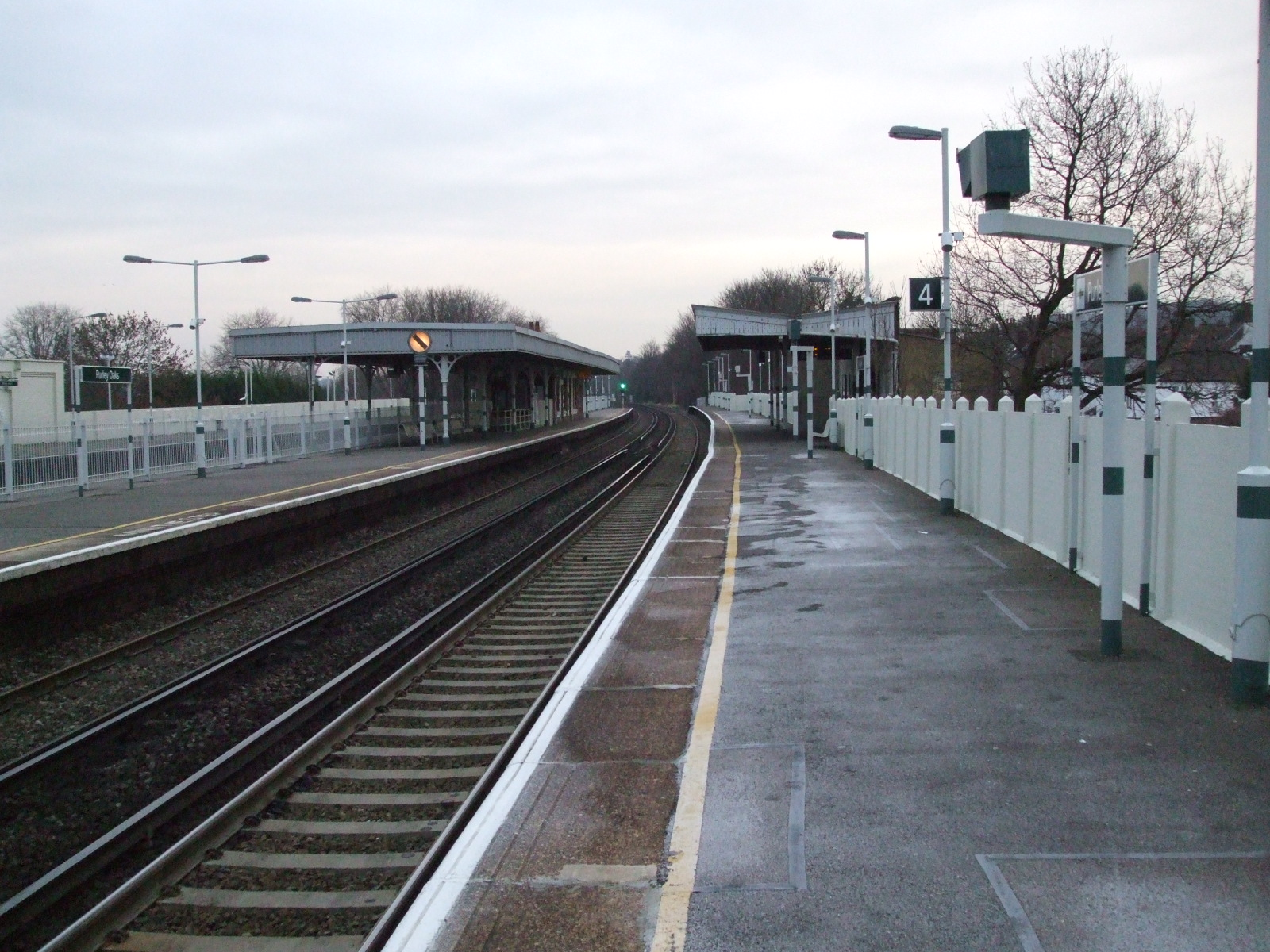 Purley Oaks station slow platforms looking north